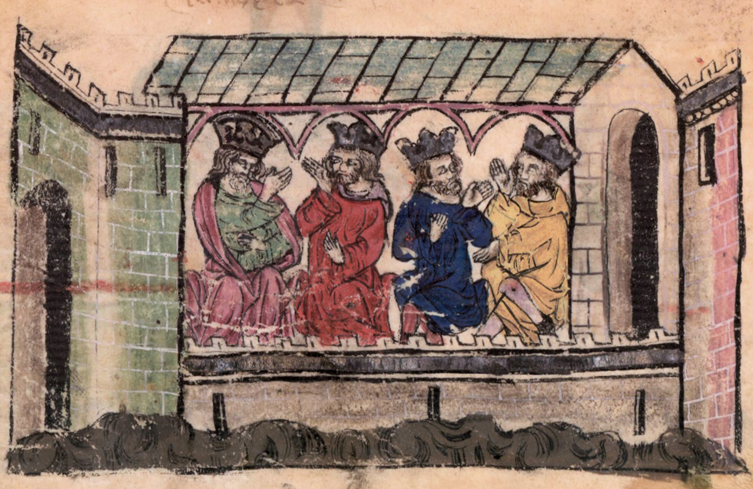 Khans of «the four uluses»: Temür (Yuan), Chapar (Ulus of Ögedei), Toqta (Golden Horde), Öljaitü (Ilkhanate).Hayton of Corycus, Fleur des histoires d'orient.